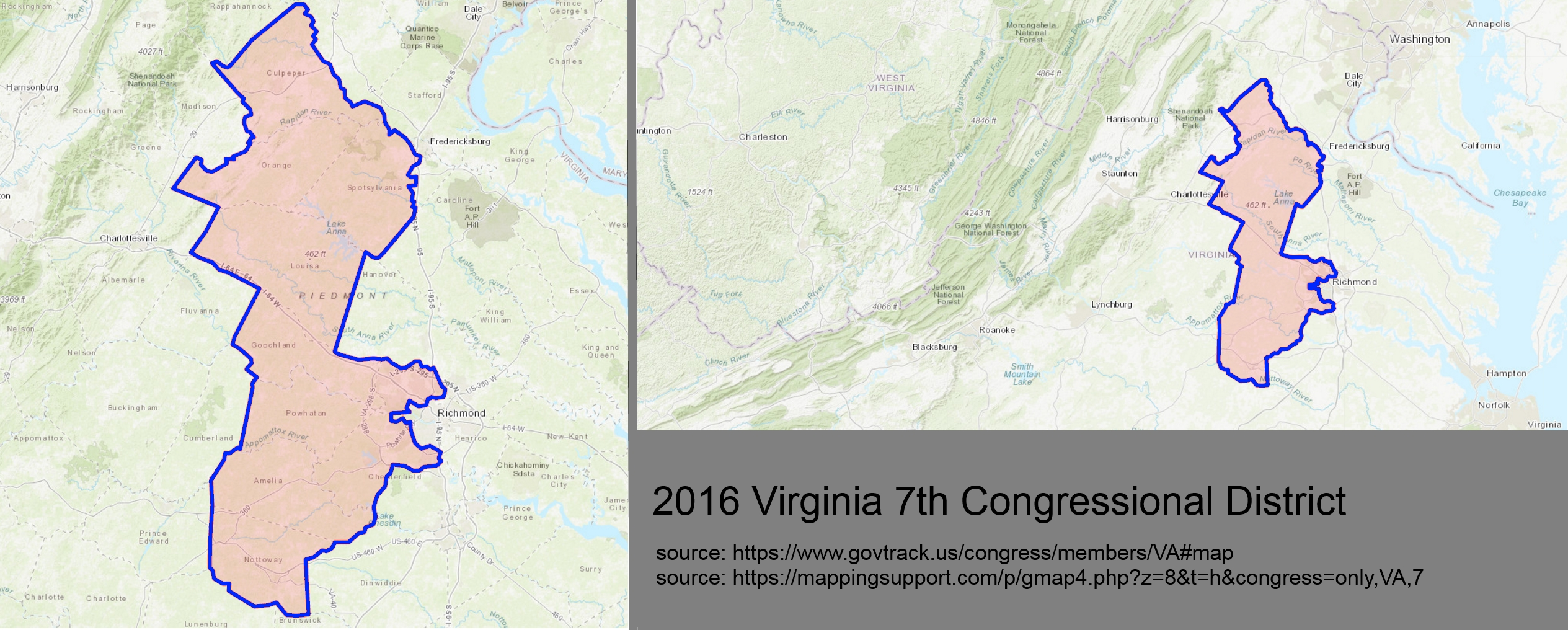 2016 Virginia 7th Congressional District Map